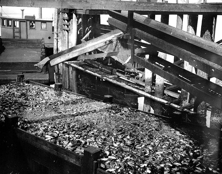 From John Cobb field notebook: Elevator carrying gurry from cannery to scow, A. P. A., Anacortes, Wash. 1917 Subjects (LCTGM): Canneries--Washington (State)--Anacortes Subjects (LCSH): Scows--Washington (State)--Anacortes; Fisheries--By-products